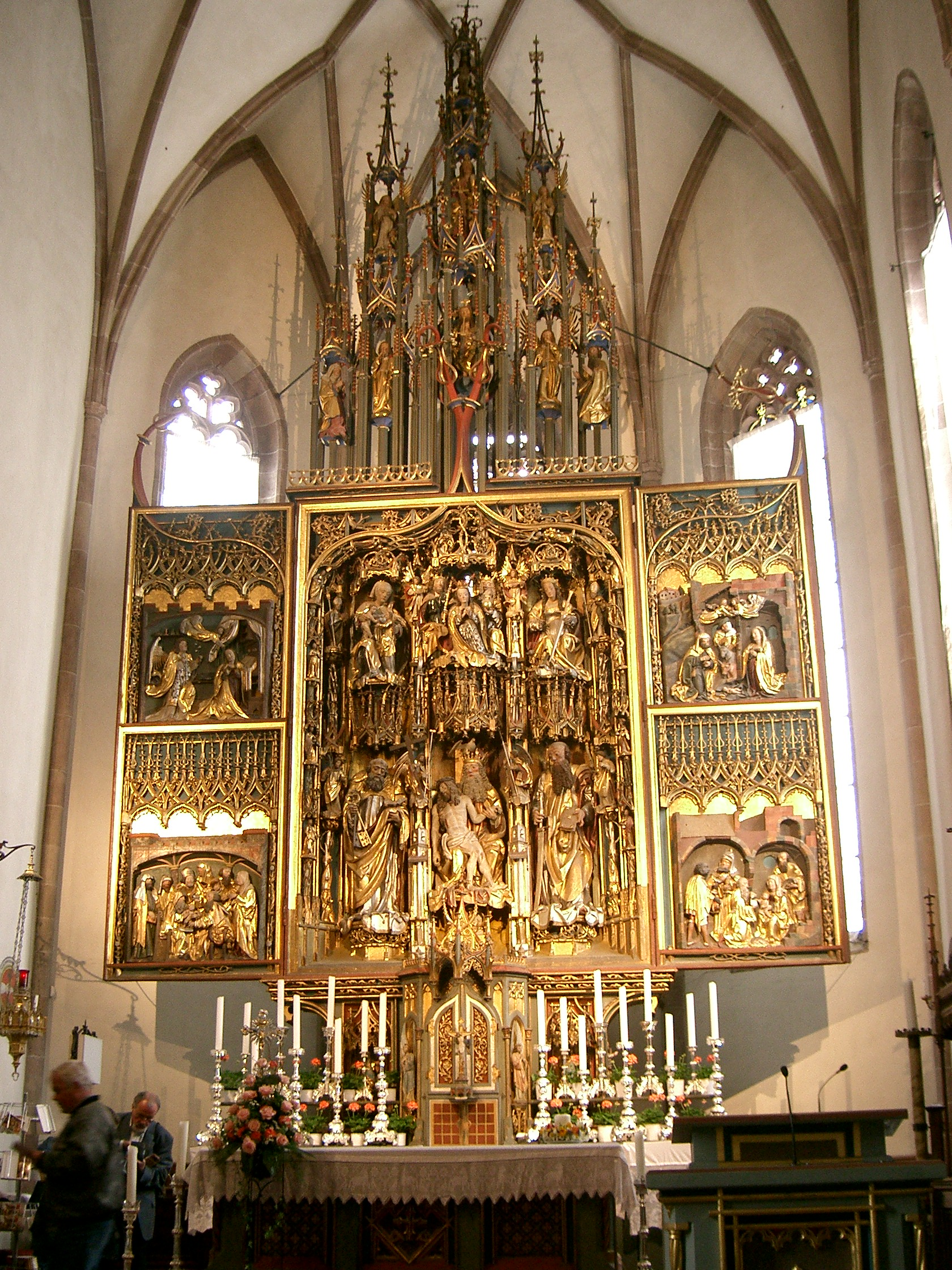 Niederlana, Italy. Parish church. Altar from Hans Schnatterpeck.